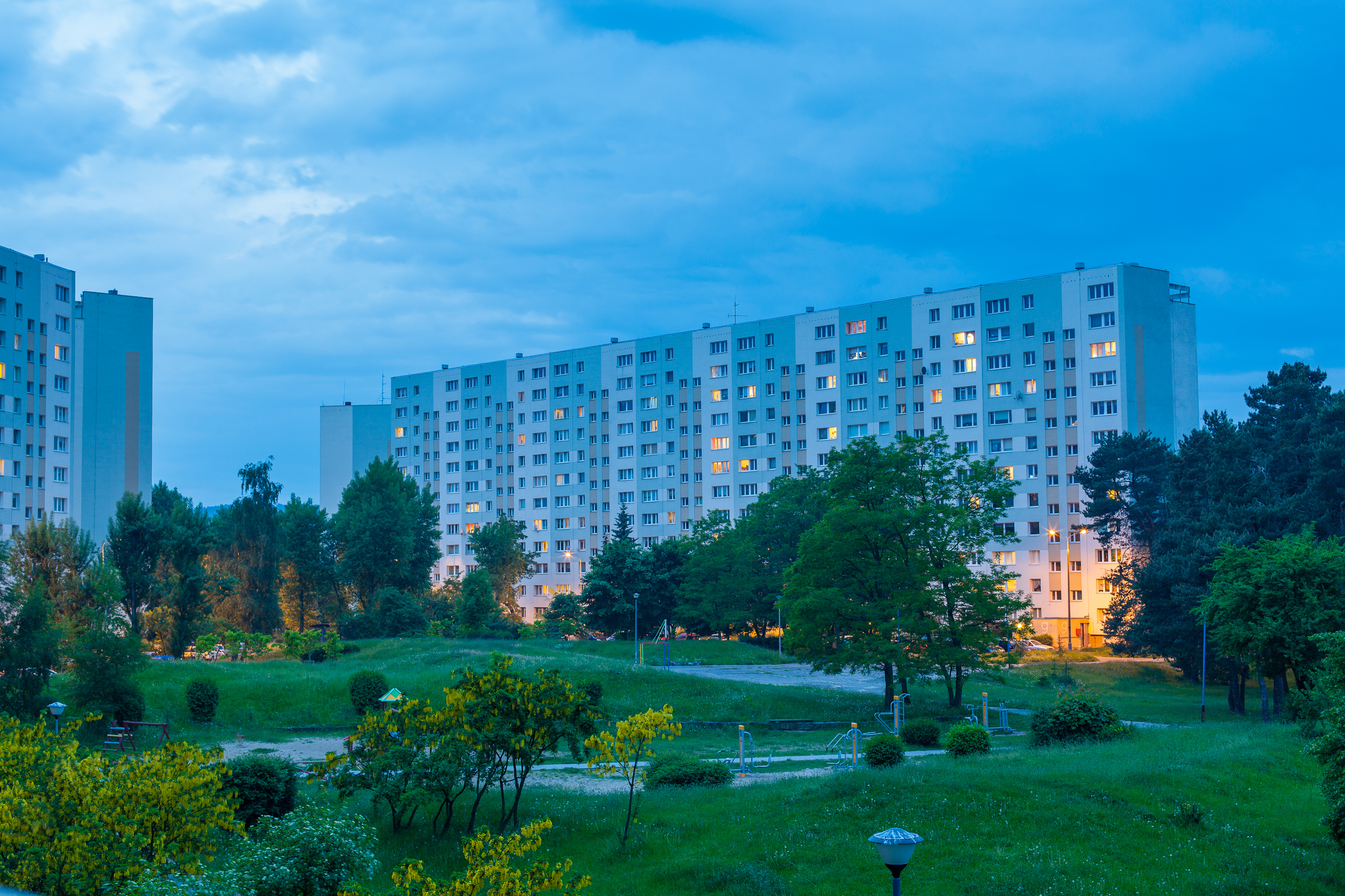 Housing Estate Żabianka, Gdansk, Poland.